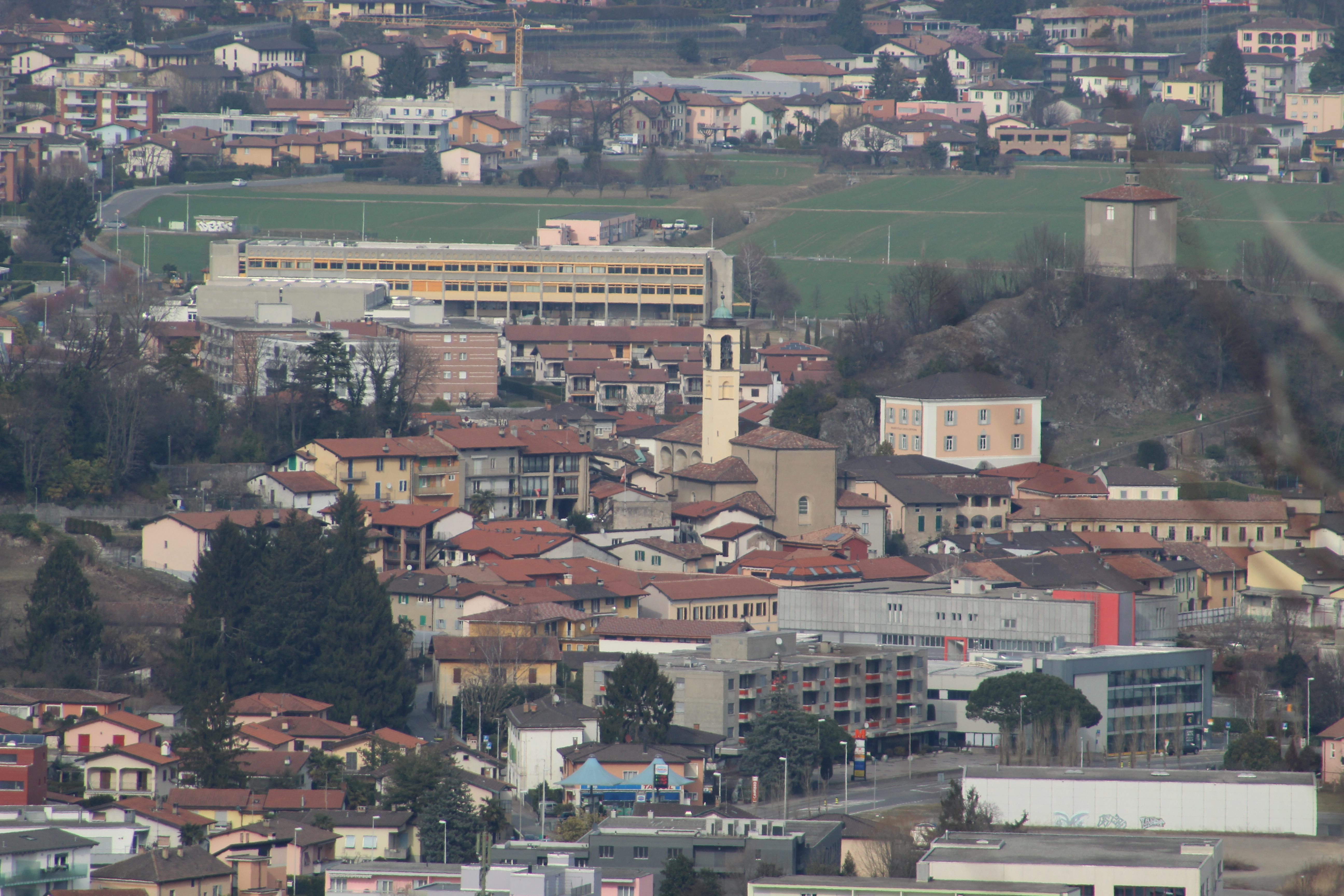 Stabio - SS. Giacomo e Cristoforo martire & S. Rocco (S. Maria Assunta) viewed from San Maffeo in Rodero